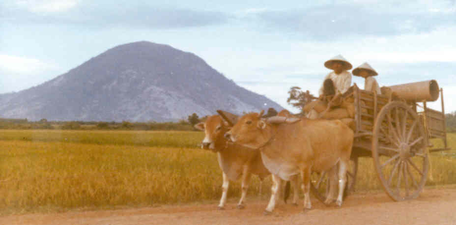 Vietnamese cart with Nui Ba Den in background